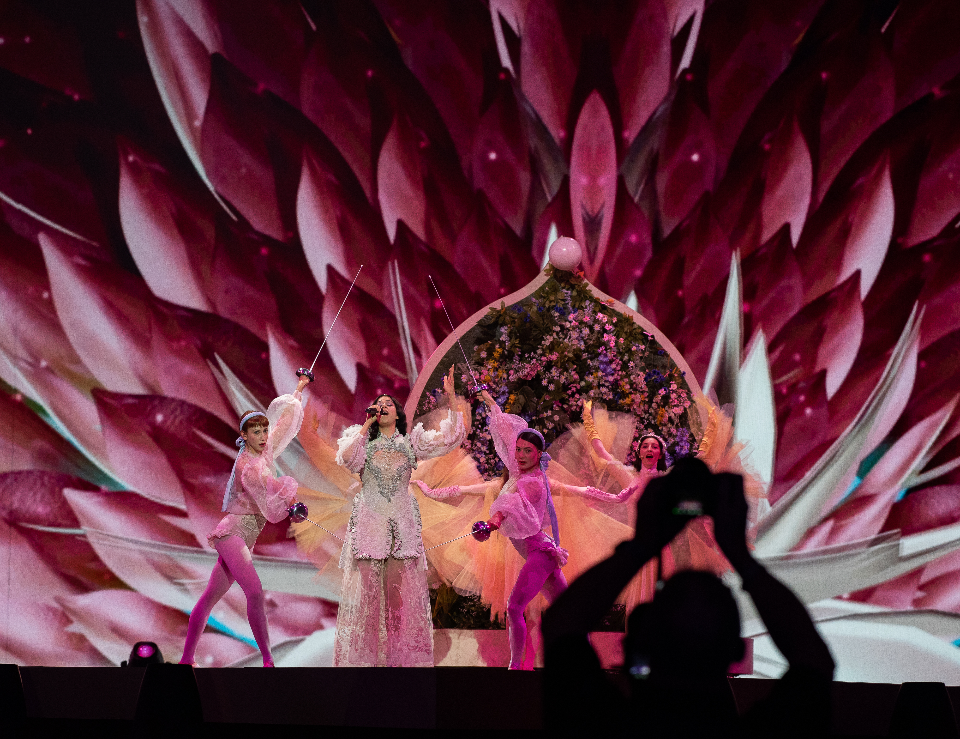 Katerine Duska at the Eurovision Song Contest 2019 in Tel Aviv.